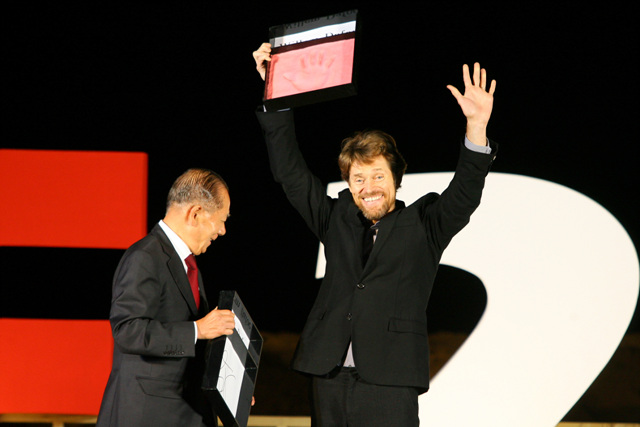 Handprinting, Williem Dafoe, 2010